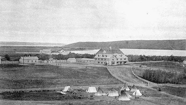 Qu'Appelle Indian Industrial School, Saskatchewan